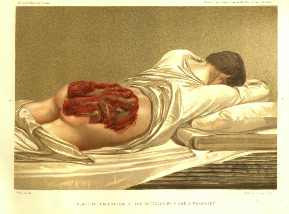 Illustration from The Medical and Surgical History of the War of the Rebellion (USG Printing Office, 1870-88) - Laceration of the buttocks by a shell fragment - part II, vol 2 pag 430